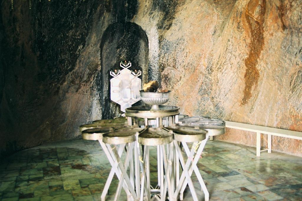 Inside the shrine at Chak Chak, Yazd, Iran.